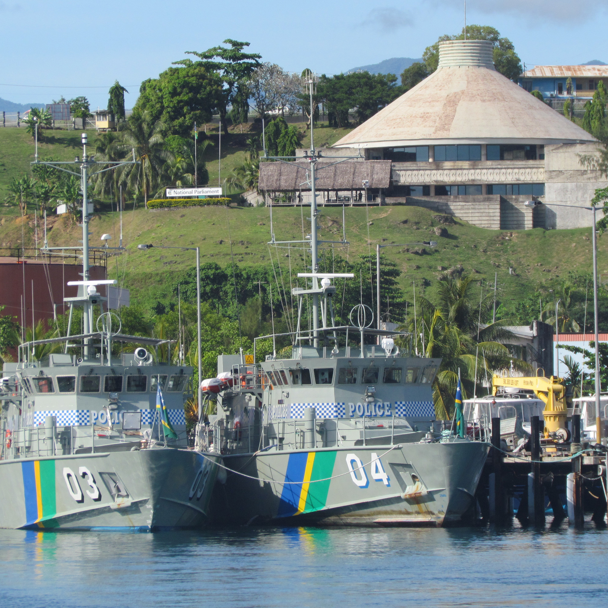 Police boats and parliament house Honiara